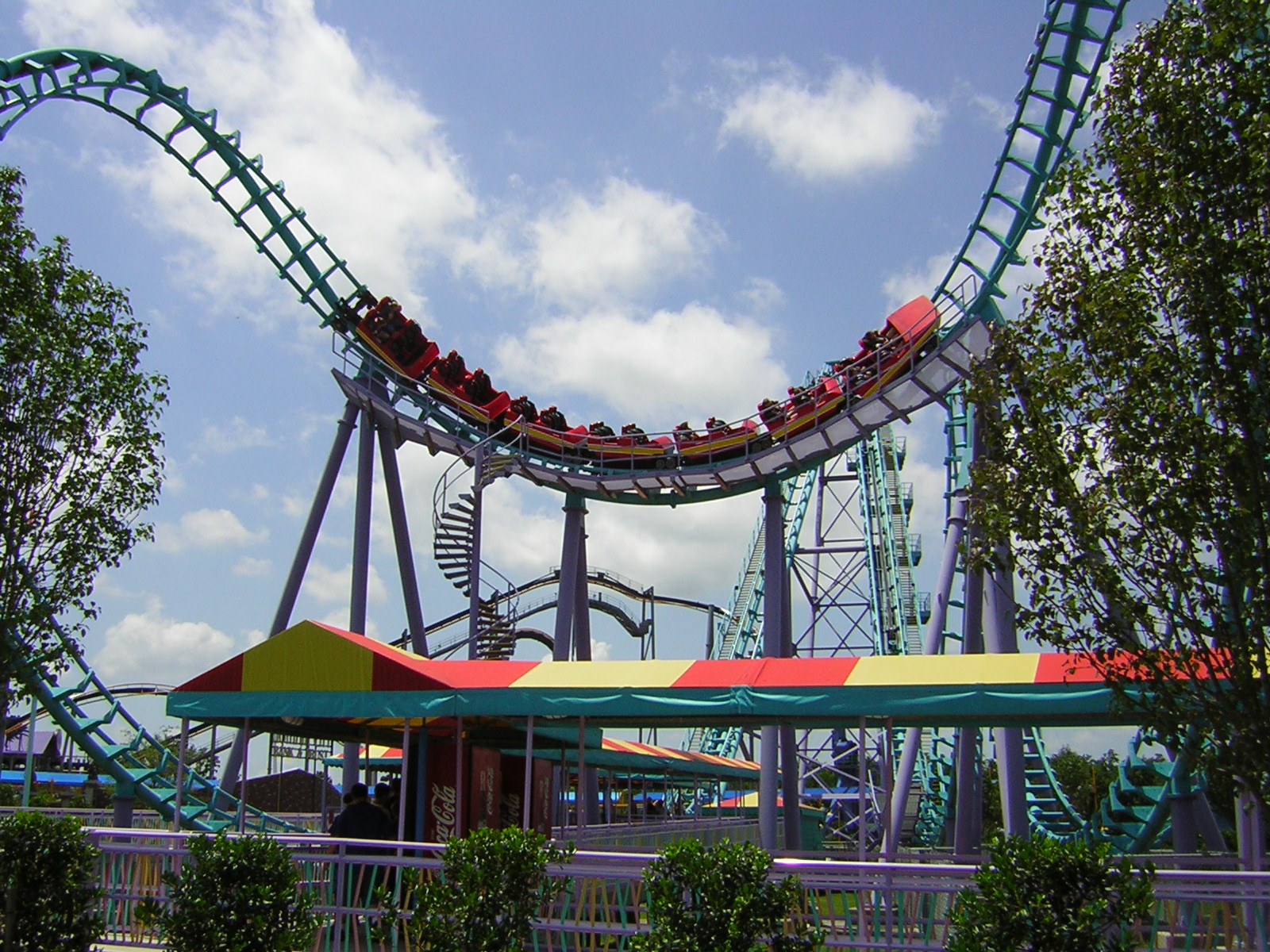 I'm not quite fond of Vekoma Boomerang coasters, but hey, they are a more respectable than most kiddie coasters.Boomerang